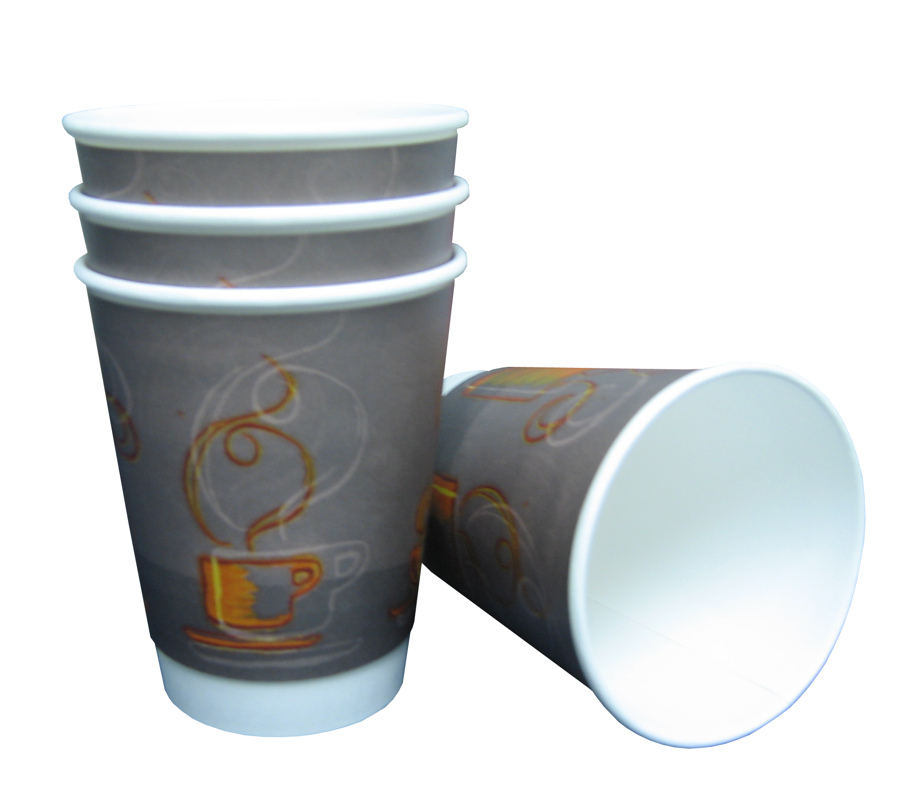 several paper cups